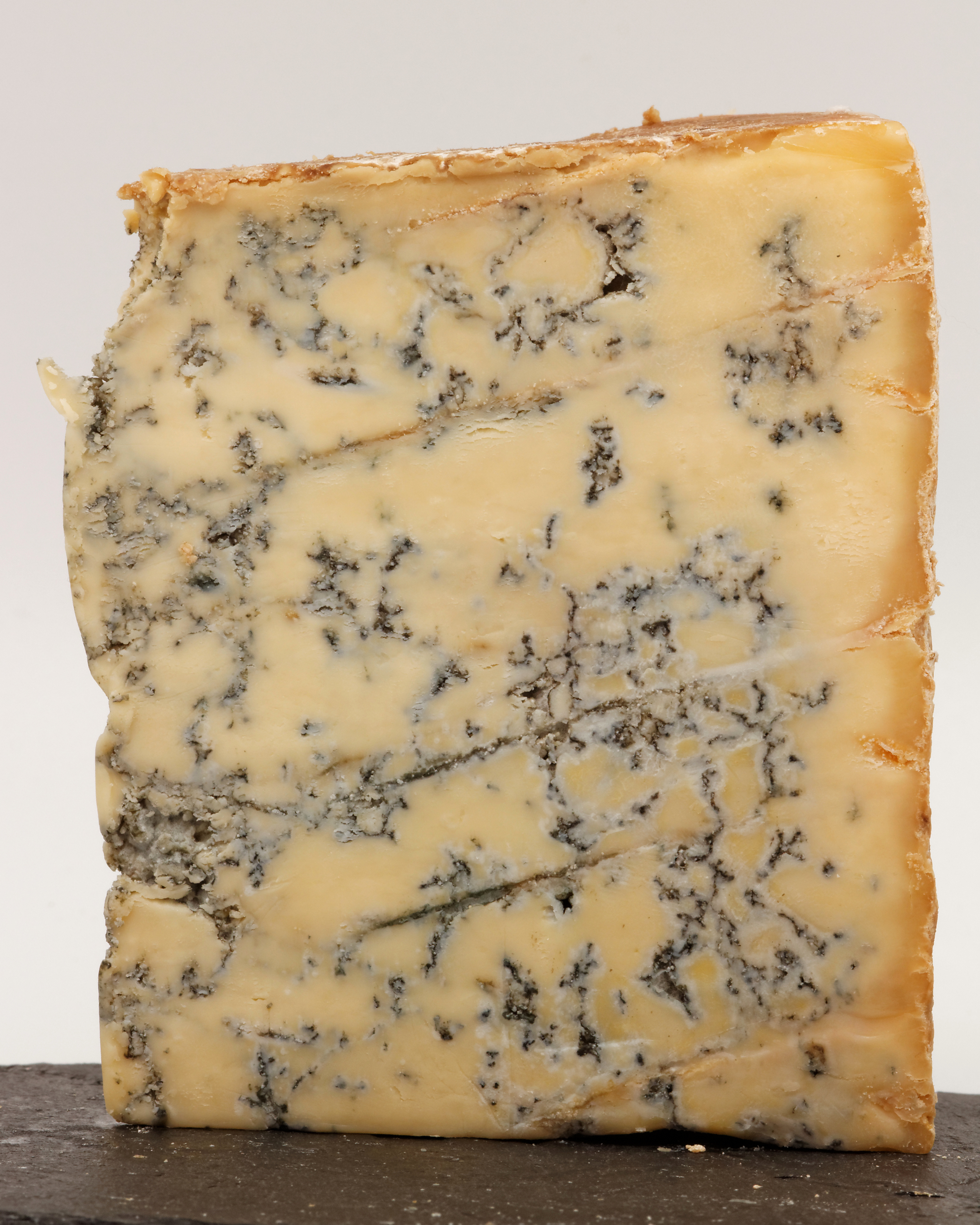 Blue Stilton